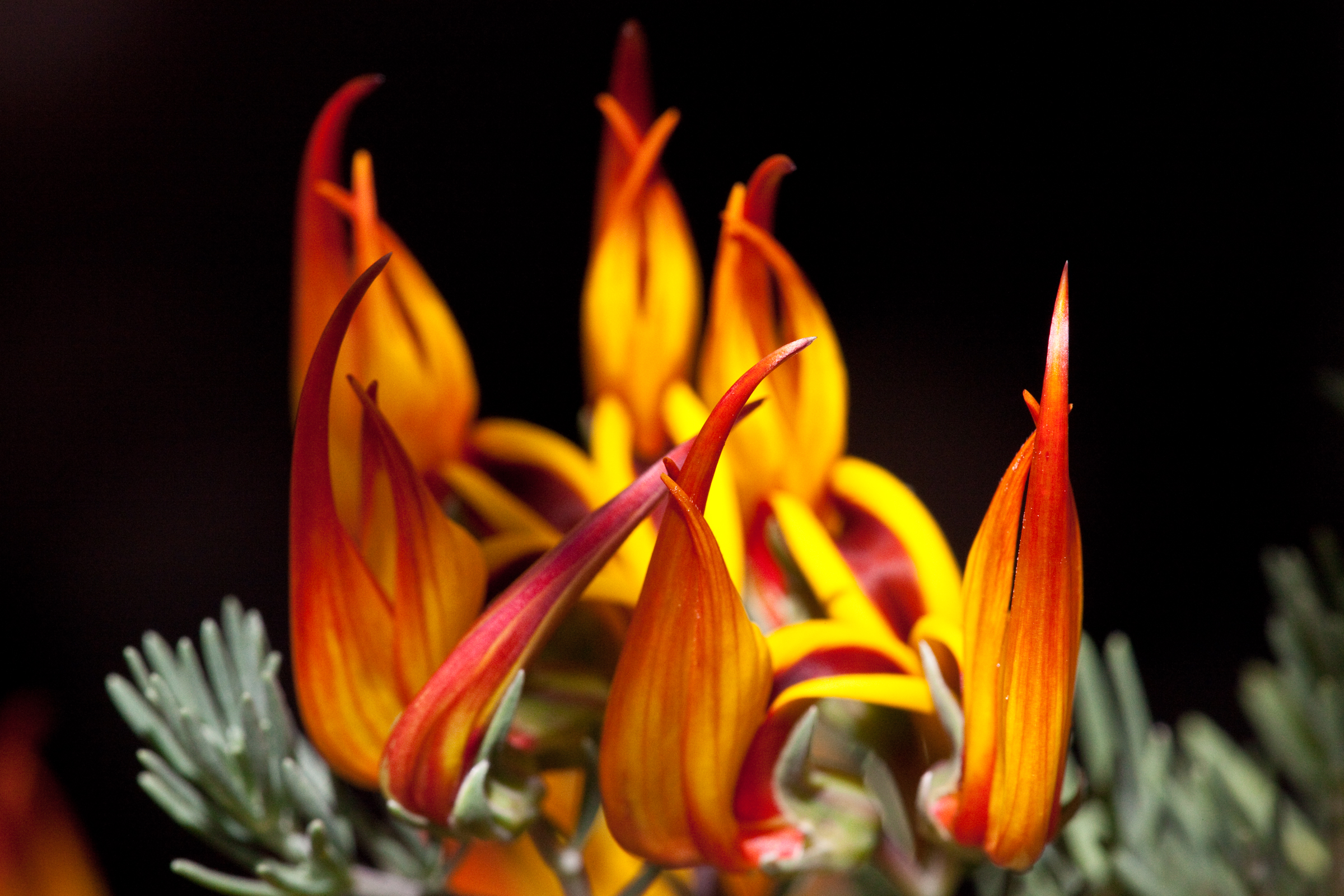 [category: flowers]